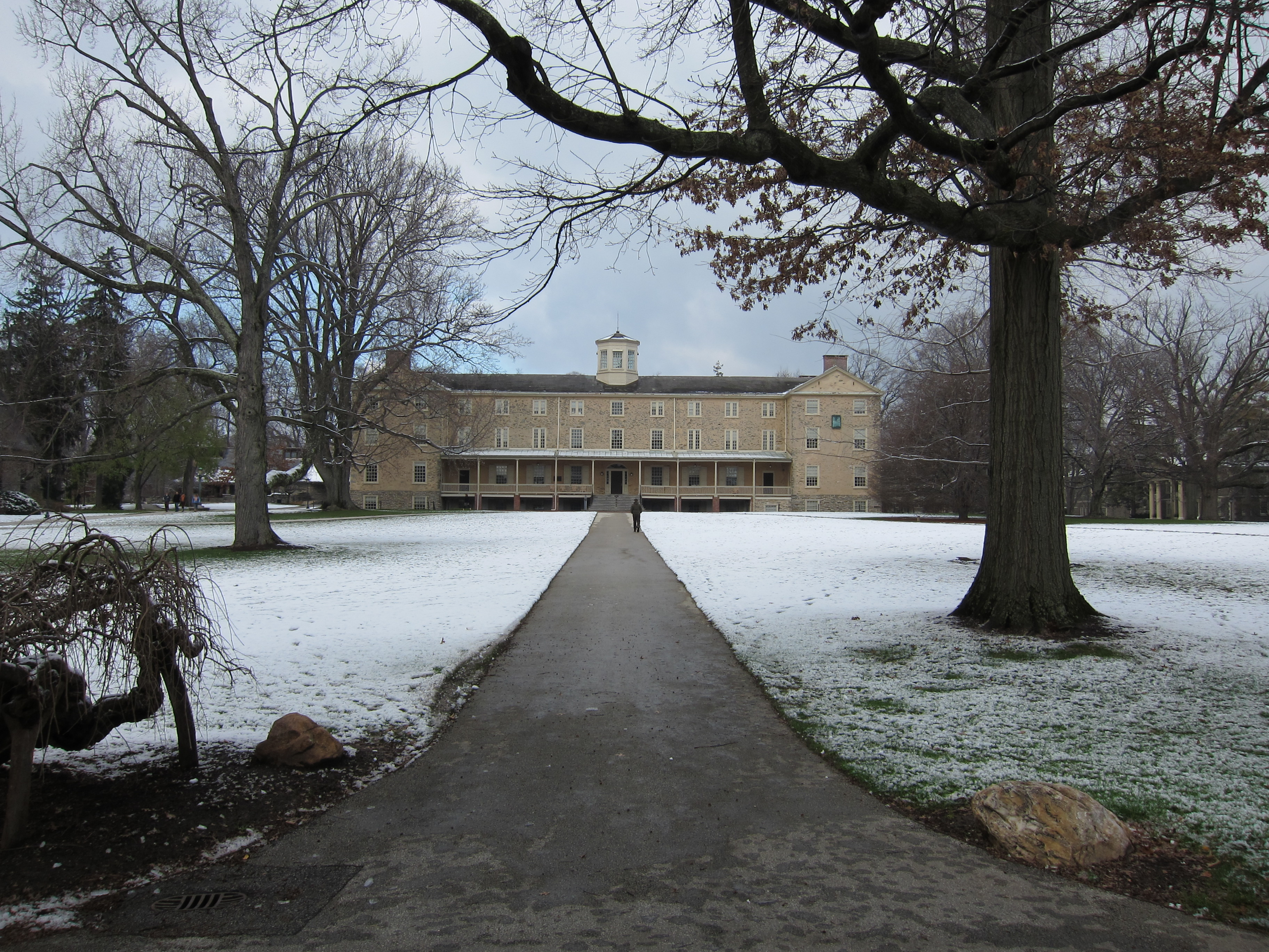 Founders Hall of Haverford College, Pennsylvania.